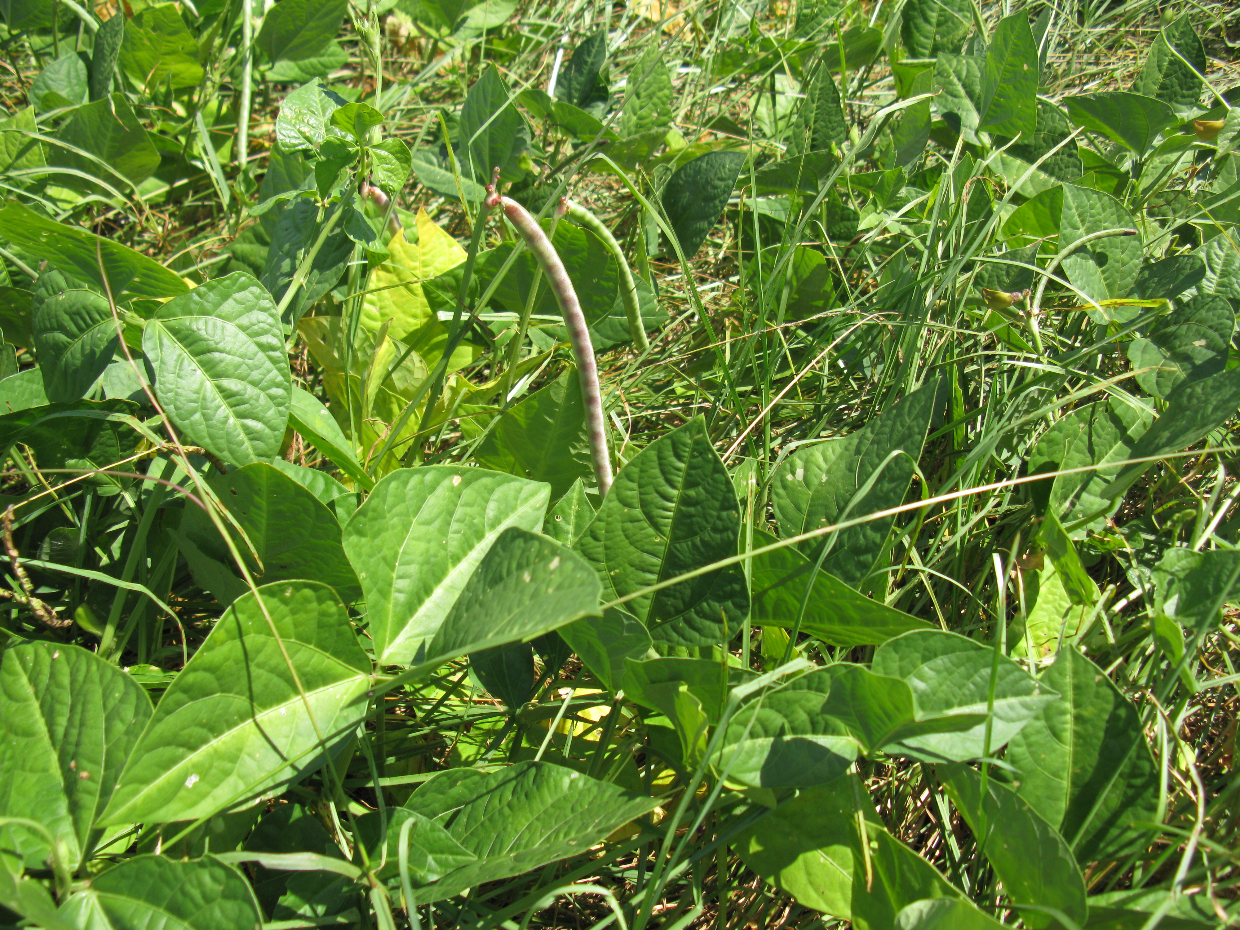 Pods are 10-23 cm long and cylindrical.